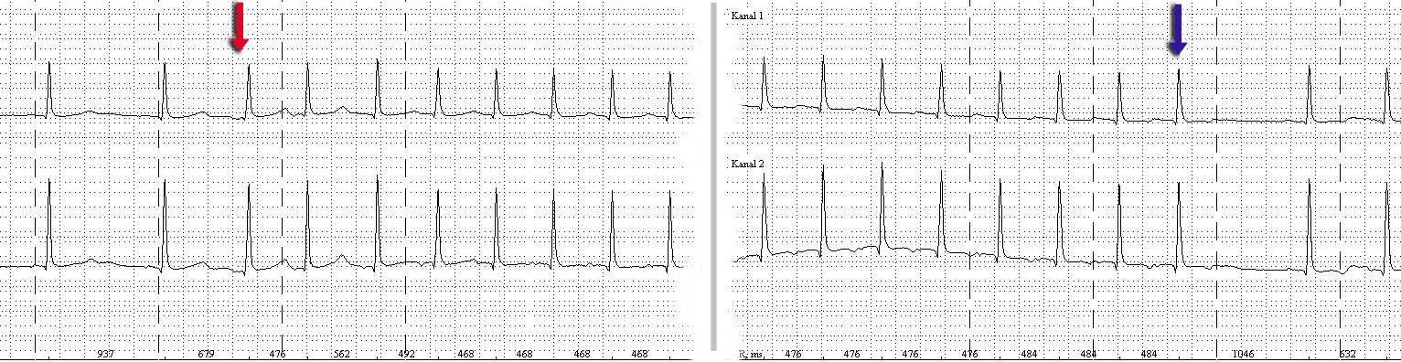 Holter recording (discontinued) of a SV-tachycardia with a heart rate of about 128 per minute